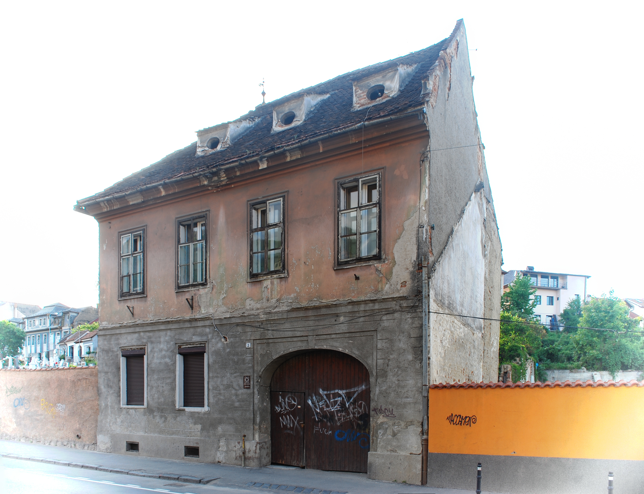 House on Iuliu Maniu street 3 in Brașov, RomaniaRomână: Casă pe strada Iuliu Maniu nr. 3 în Brașov, România